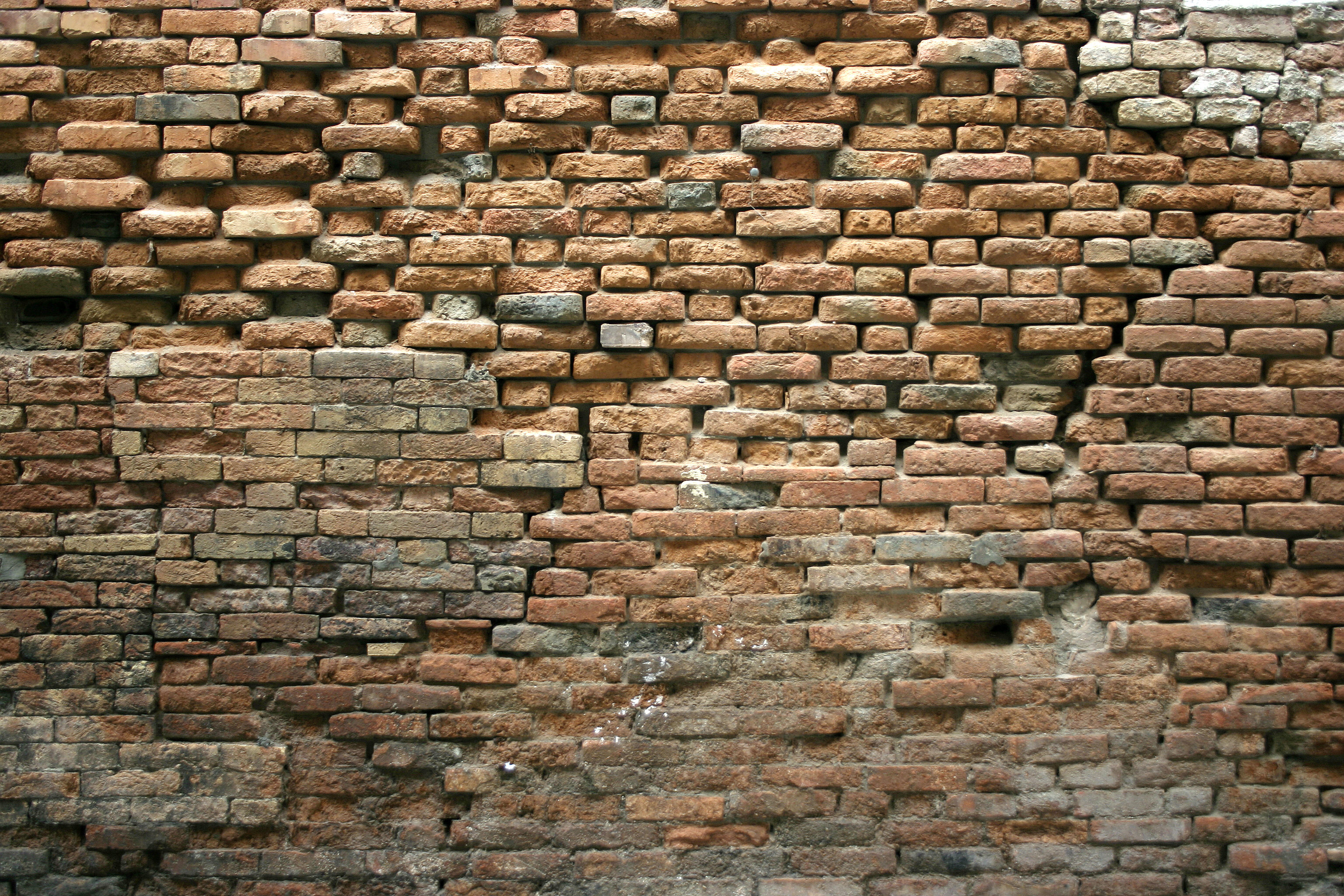 Very old brickswall